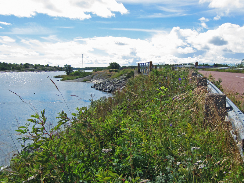 On the way towards Snäckö, Kumlinge